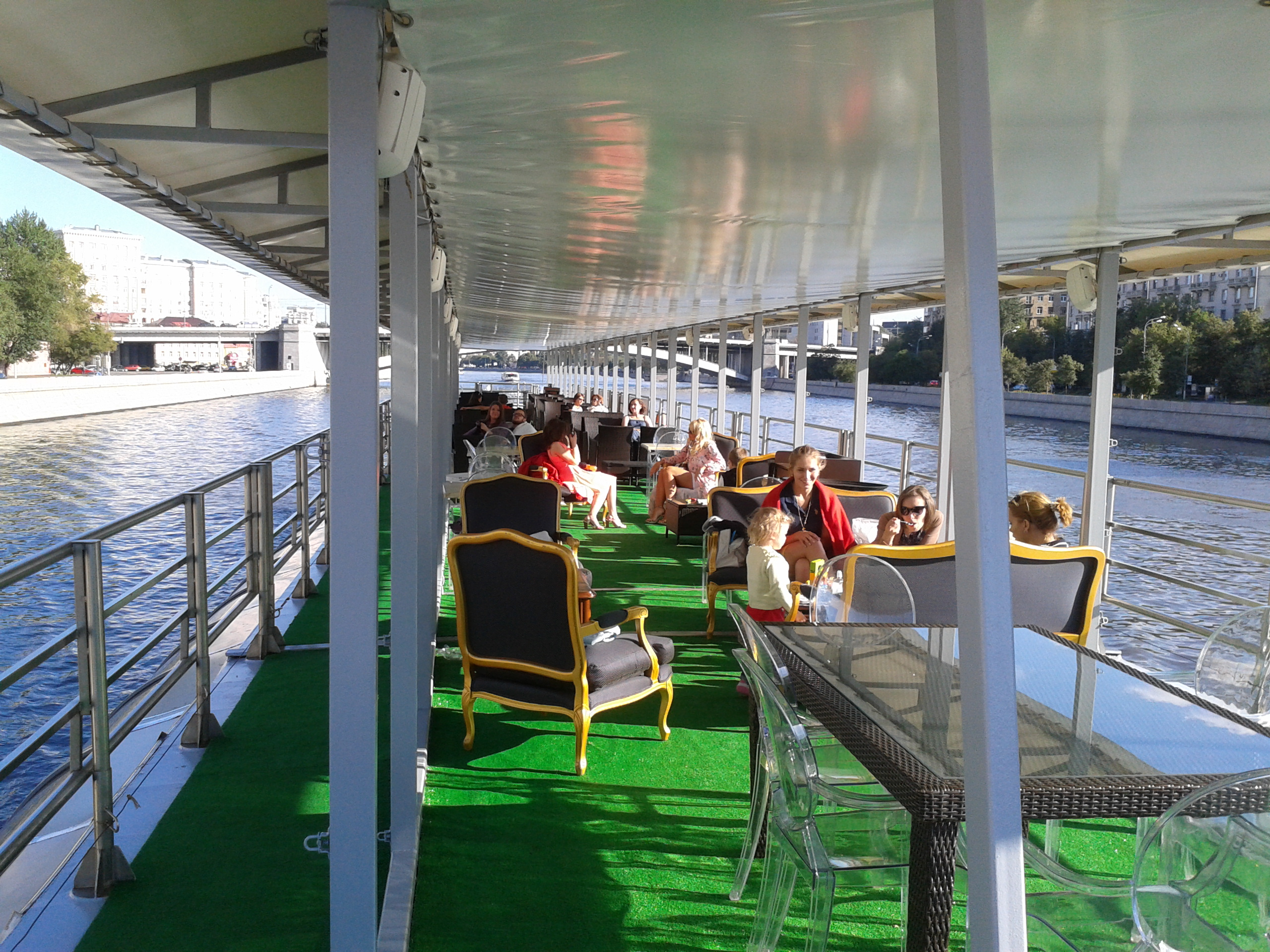 Water transport in Moscow. 2015